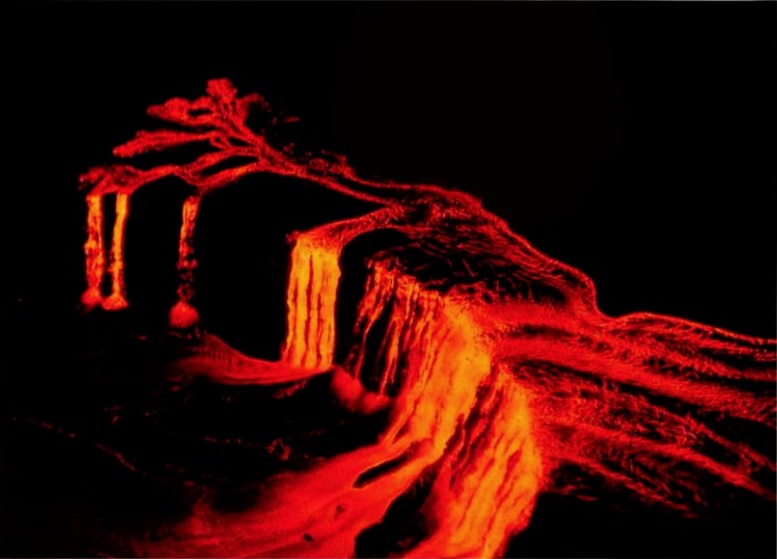 Aerial view of lava cascades into Lua Hou, upper southwest rift zone. Cascade height about 90 m.